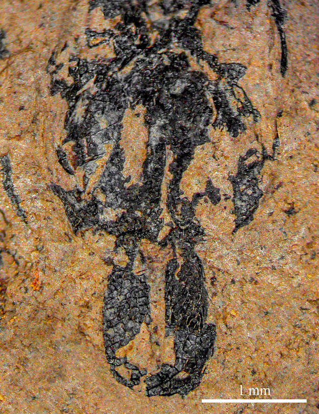 Head of the Odontomachus paleomyagra" holotype queen. Specimen ZD0136; Z. Dvorak Private collection, B lina Mine Enterprises; Teplice, Czech Republic. Most Formation, Burdigalian; Blina Mine, Teplice, Czech Republic.